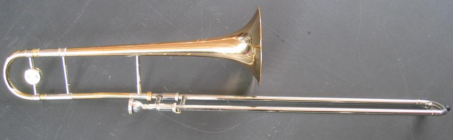 Tenor trombone